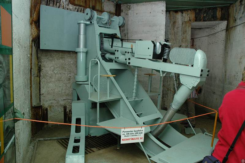 Maquette of howitzer in fortress Dobrošov.